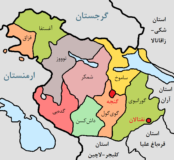 Ganja-Qazakh Region